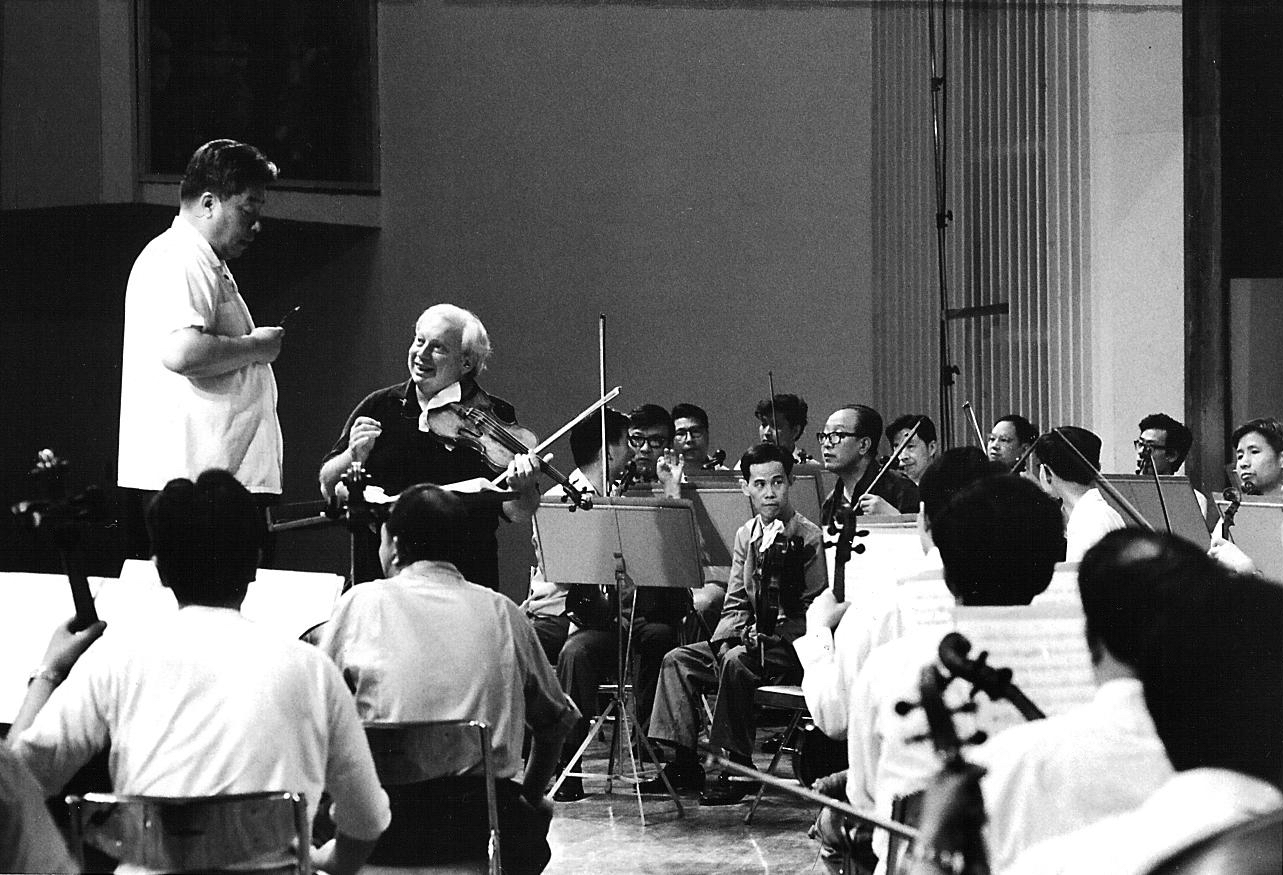 Isaac Stern rehearsing with the Central Philharmonic Orchestra in China, 1979. Photo courtesy of, The Center for US-China Arts Exchange.